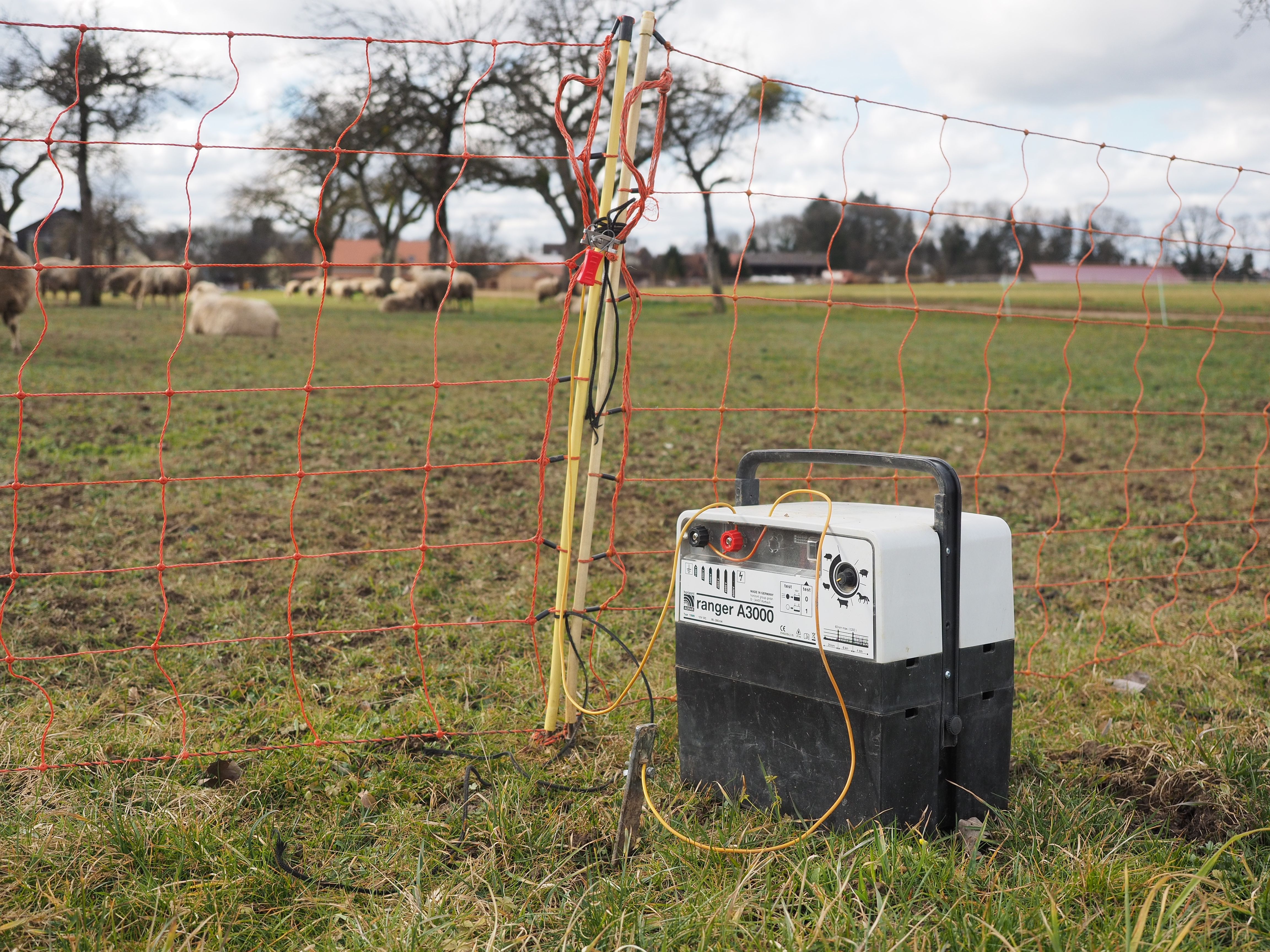 Battery-driven fence charger. The negative pole is grounded, the positive pole is connected to an electric fence net made of plastic fibres and metal wires.